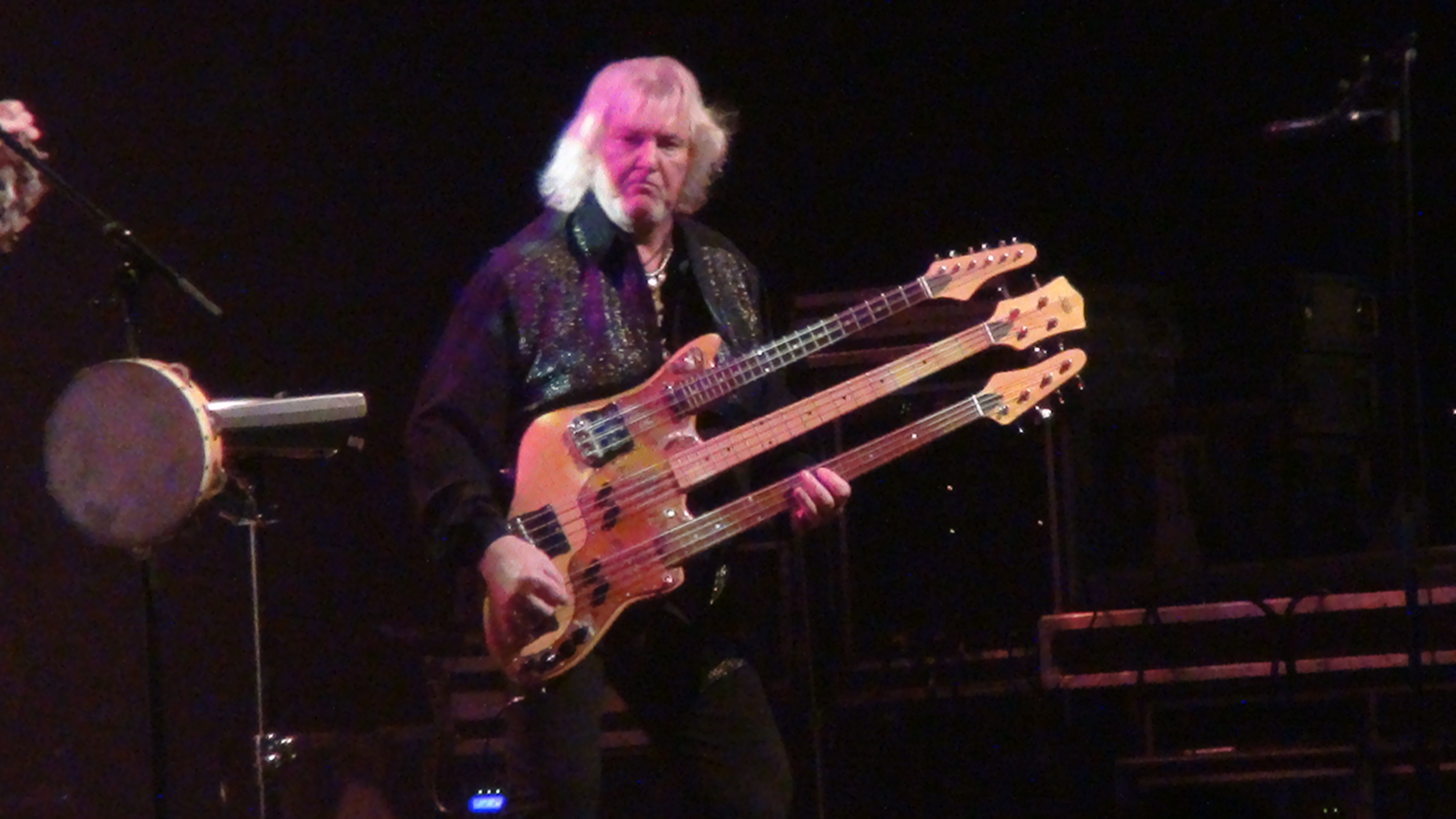 Chris Squire playing his triple bass in a Yes show at HSBC Brasil Hall in São Paulo on 24 May 2013.